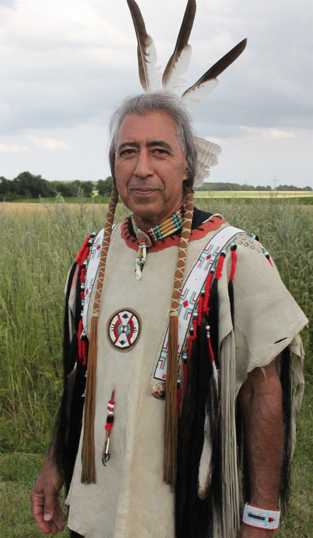 Dancing Thunder is Chief of the Susquehannock tribe of Florida. He works with deep knowledge of the spirits. Thunder is a very good healer , medicineman and a very strong shaman.